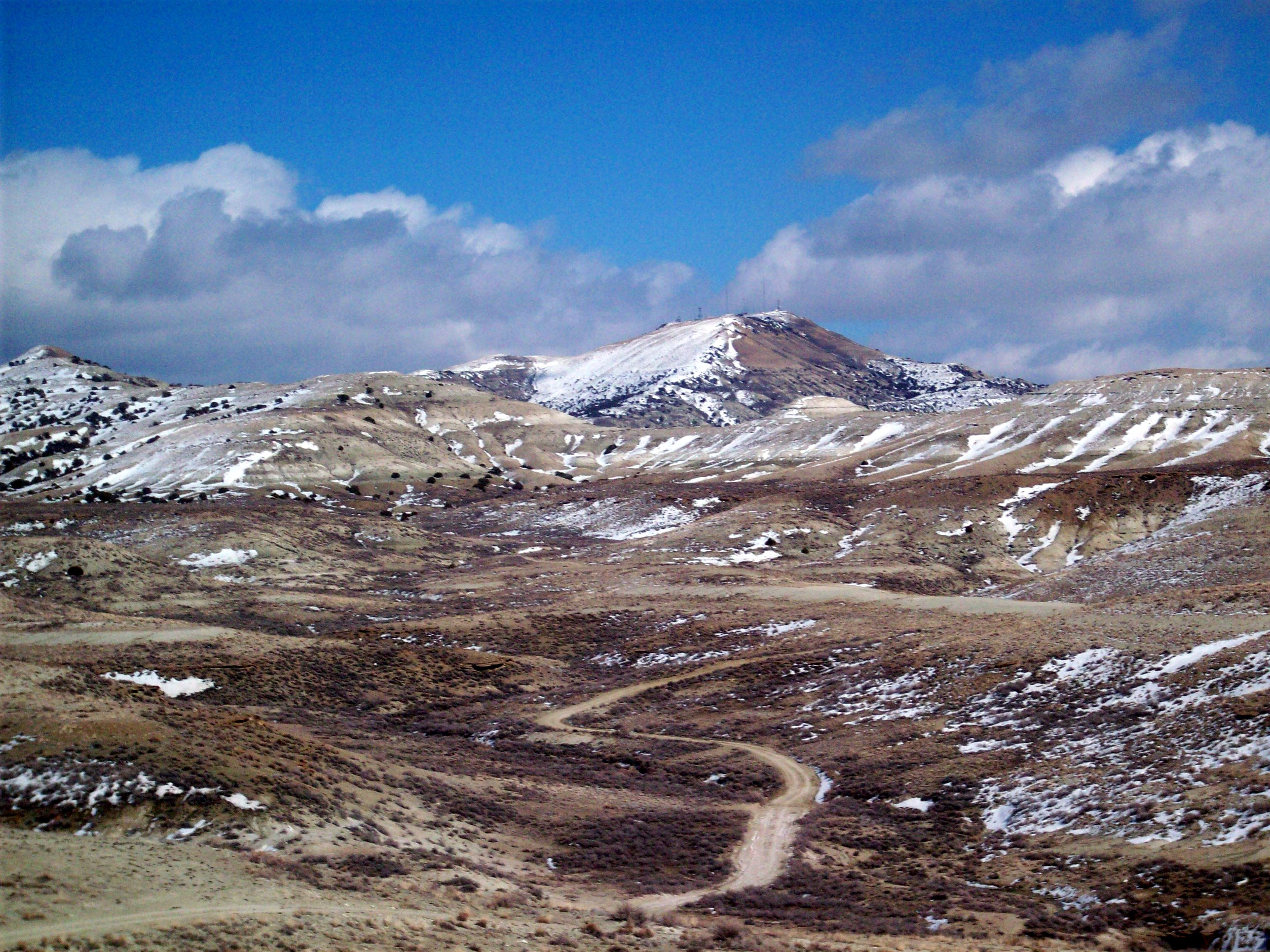 Wilkins Peak, from Scott's Bottom, Green River, Wyoming